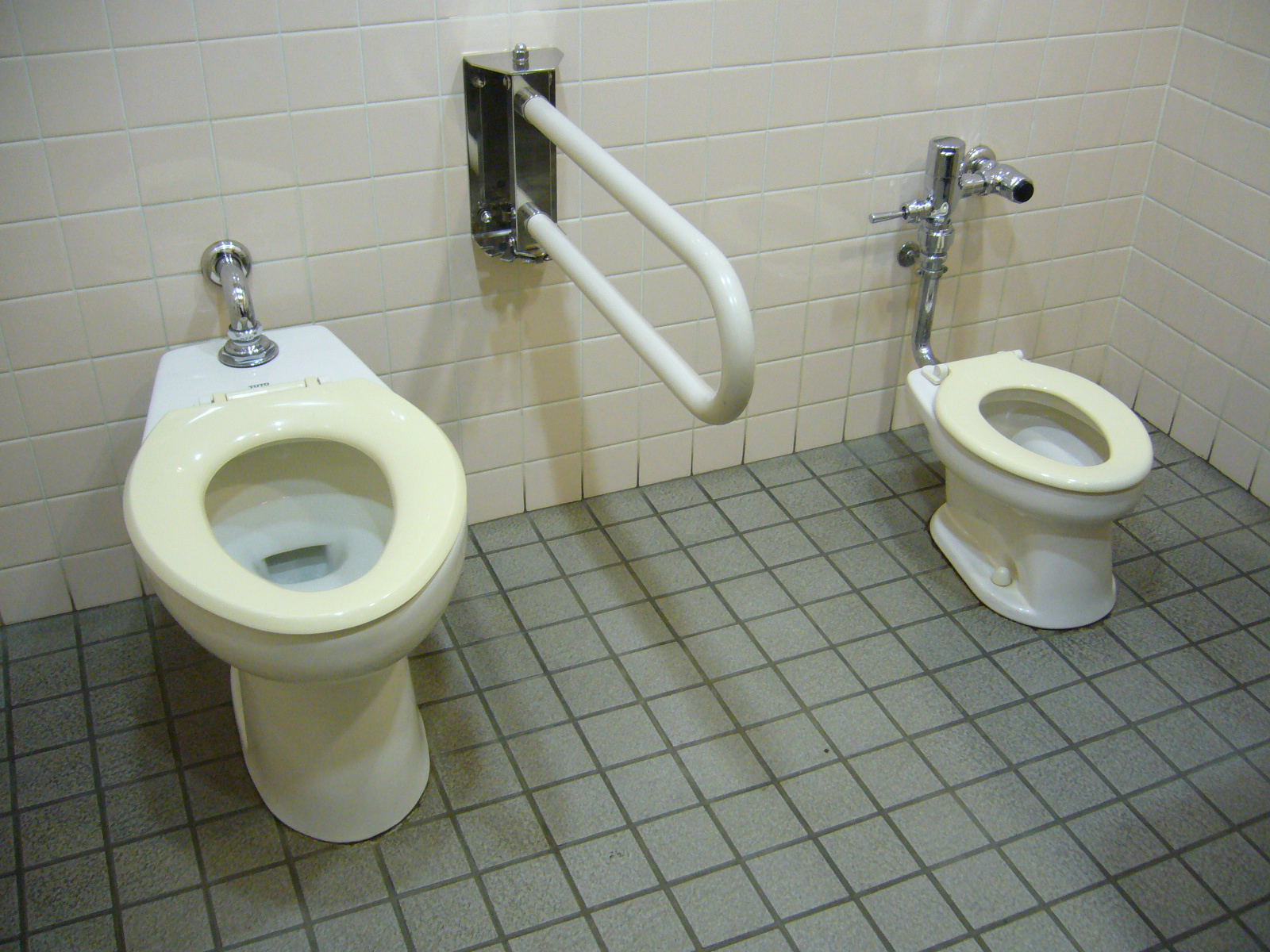 Toilet ordinary&child,child-benki,japan